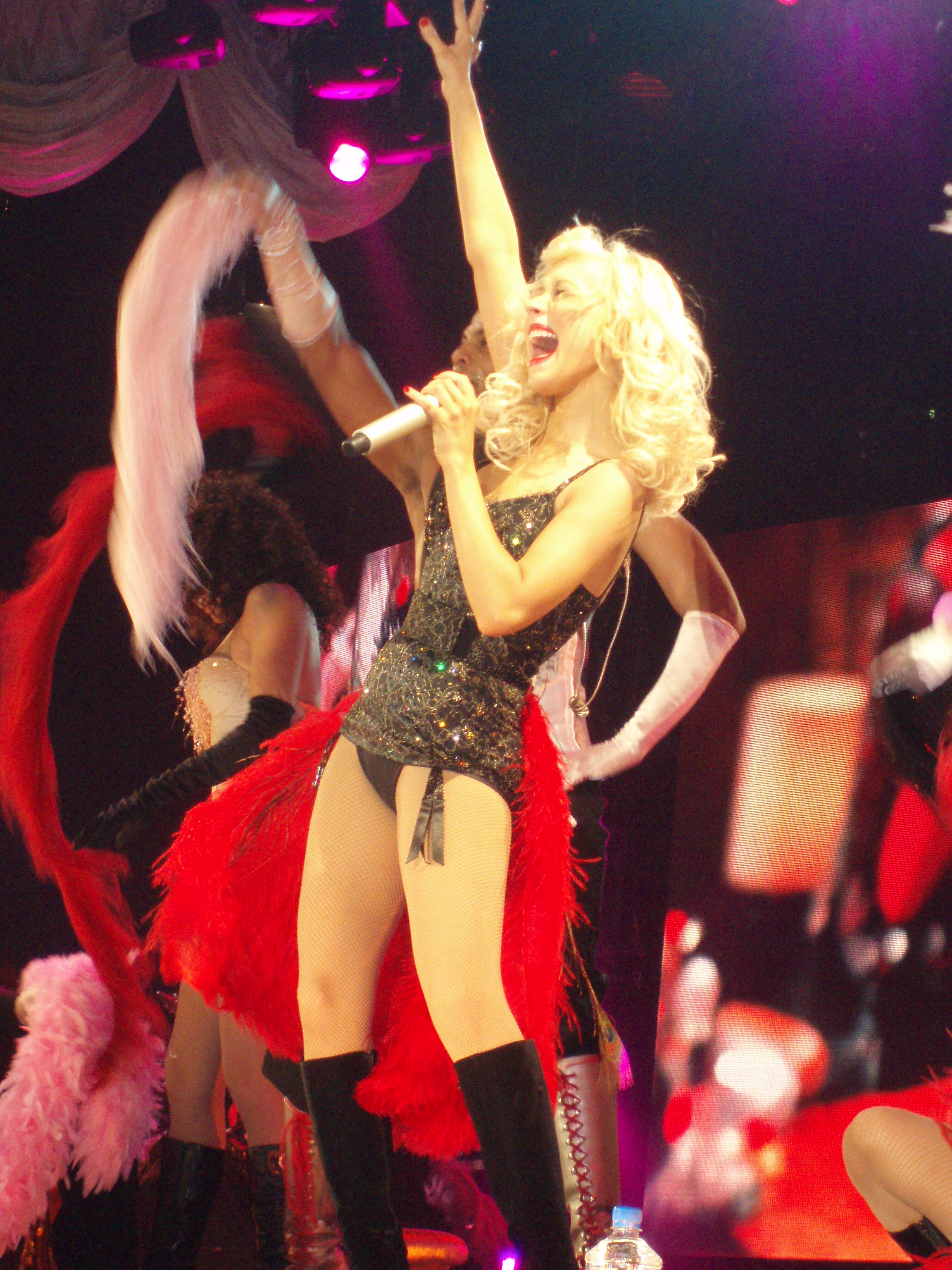 Christina Aguilera performing "Lady Marmalade"